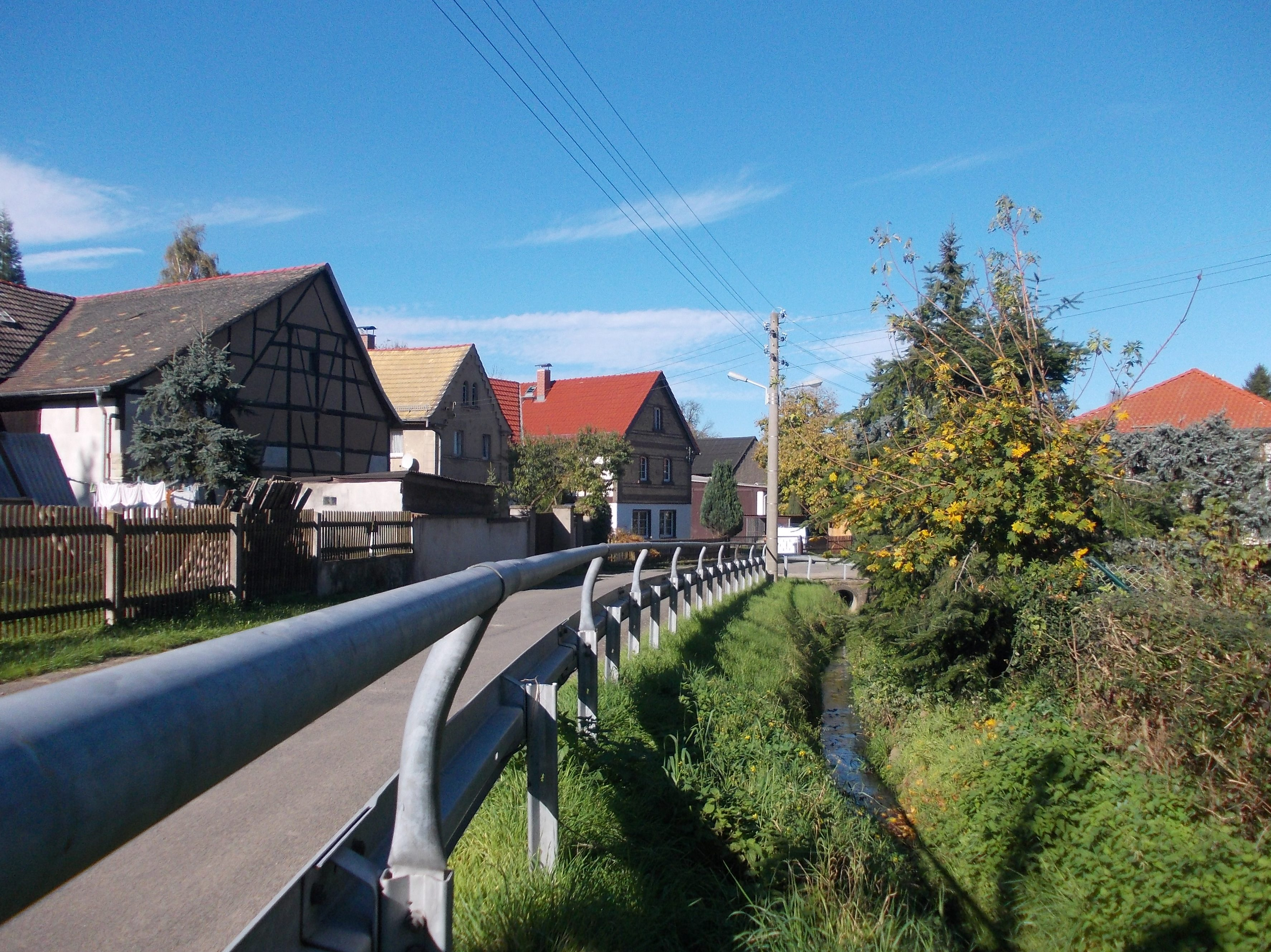 Aga stream in Reichenbach (Gera, Thuringia)